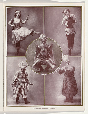 Page from a souvenir programme for Petrushka 1911